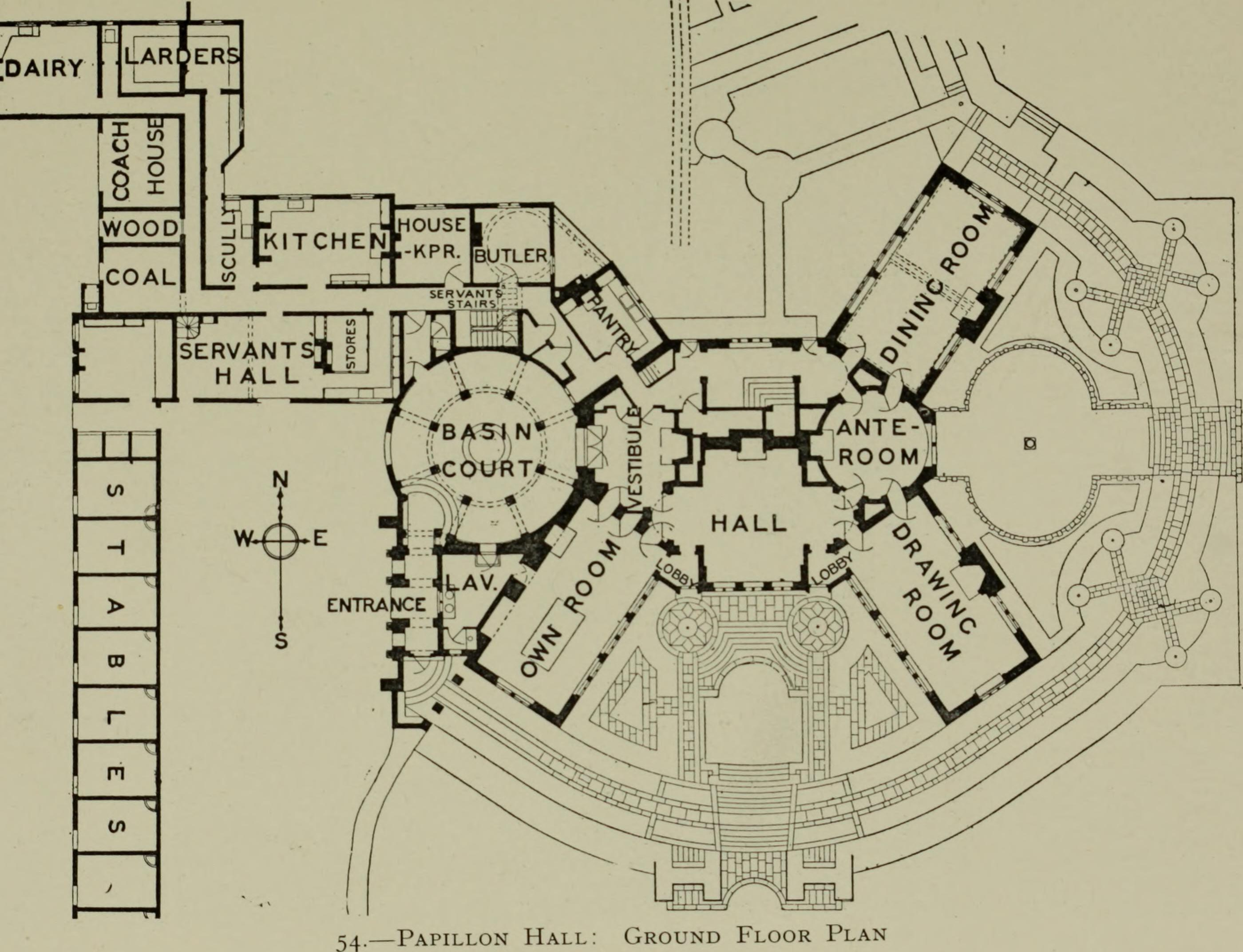 Title: Lutyens houses and gardens Year: 1921 (1920s) Authors: Weaver, Lawrence, 1876-1930 Subjects: Lutyens, Edwin Landseer, Sir, 1869-1944 Architecture, Domestic Gardens Publisher: London, Offices of "Country life", ltd. (etc.) New York, C. Scribner's Sons Text Appearing Before Image: he name of the house, which comes, however, from an earlierowner of the estate, is therefore appropriate. The type isnot original, for Norman Shaw employed it when he remod-elled Chesters. Sir Edwin, however, has used the air withvariations of his own, the most notable of which is the roundBasin Court on the west side (Fig. 55). This court has twopractical merits, as well as its architectural charm. Itserves to connect the main part of the house with thekitchen offices, which form a projecting block at the north-west corner, and it provides a dignified interlude between theentrance lobby and the vestibule, through which access isgiven to the sitting hall. It is of one storey only, and themiddle of the court is open to the air, and forms an outdoorplayroom. The problems presented by a butterfly plan aremany, because the diagonal placing of the important roomscreates a number of angular spaces between them and thecentral block. The absorbing of these, without making the Papillon Hall 11 Text Appearing After Image: 78 Papillon Hall rooms themselves of an odd shape, requires considerableingenuity—a quality which is not sought in vain at PapillonHall. A very delightful feature of butterfly or sun-trapplans is the partly enclosed garden spaces which are formedby the wings. On the south front this area has been filledwith paved work and a shaped pool, which appear in Fig.56. A dolphin serves as fountain and is poised on a pipewhich leads the water to its mouth. The pool is pleasantwith broad-leaved water plants.